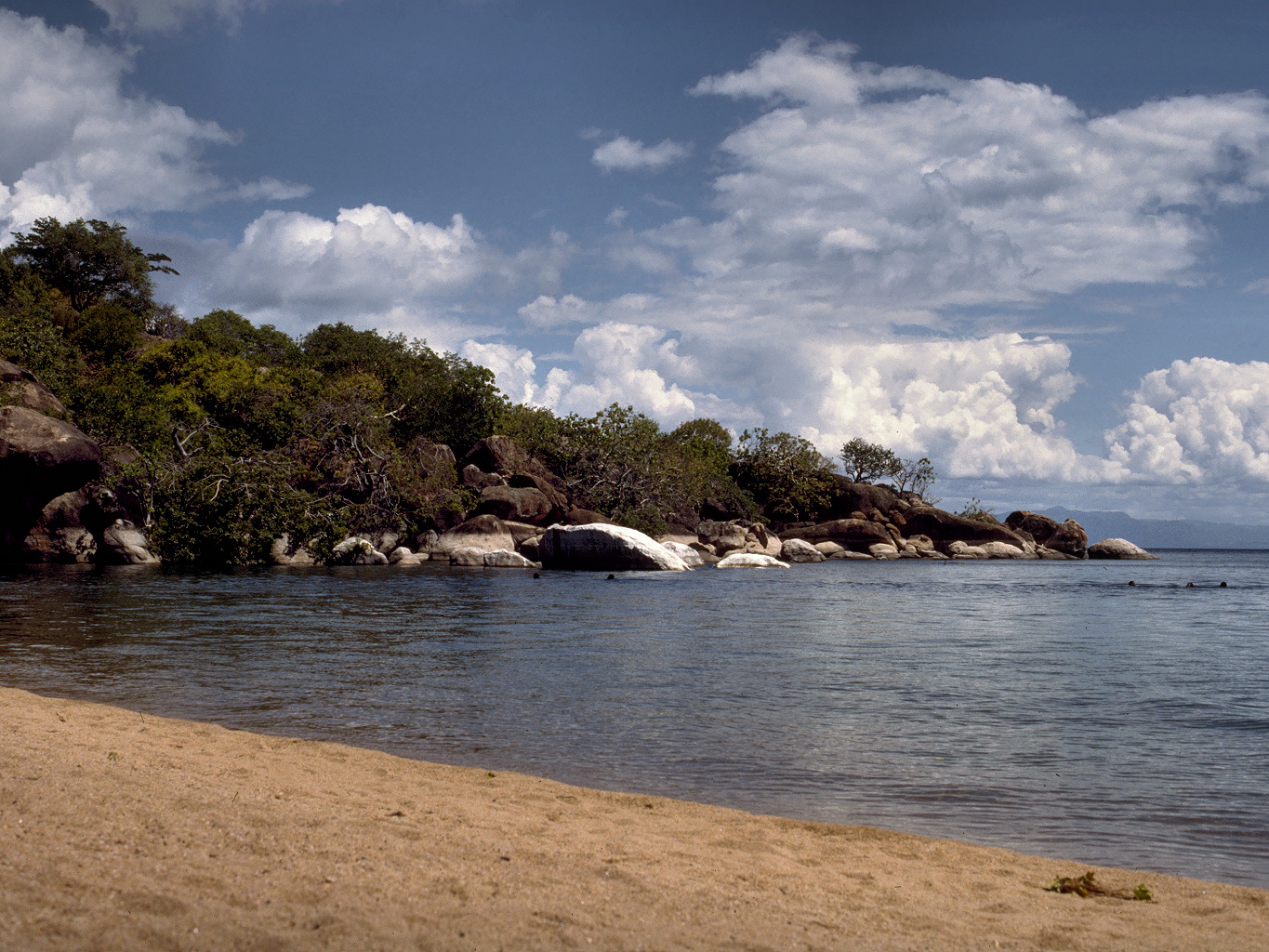 View on Otter Point at Lake Malawi National Park. Cape Maclear, Malawi.